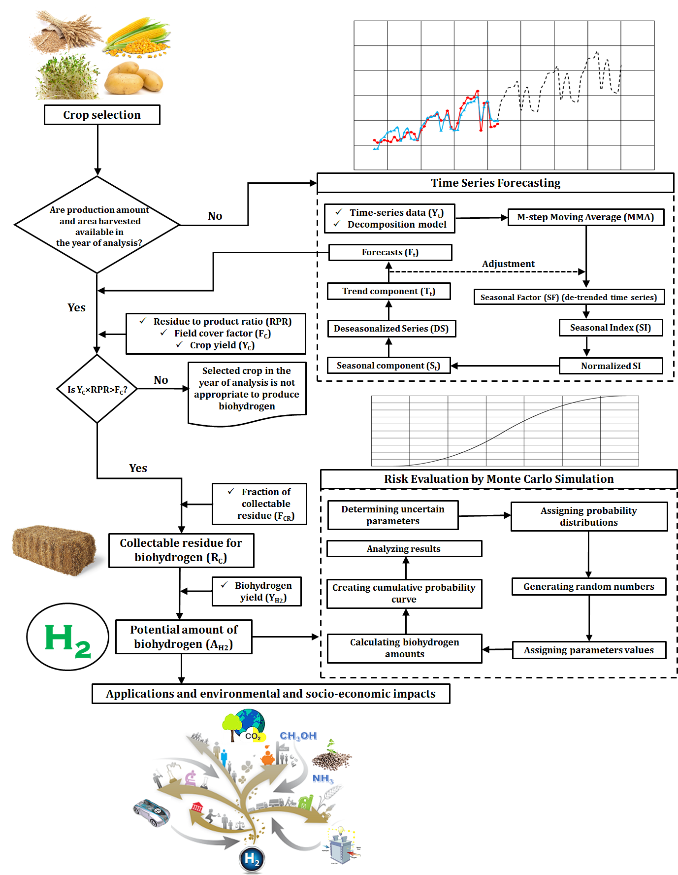 Flowchart of general methodology used in evaluation of biohydrogen production potential and environmental impacts.